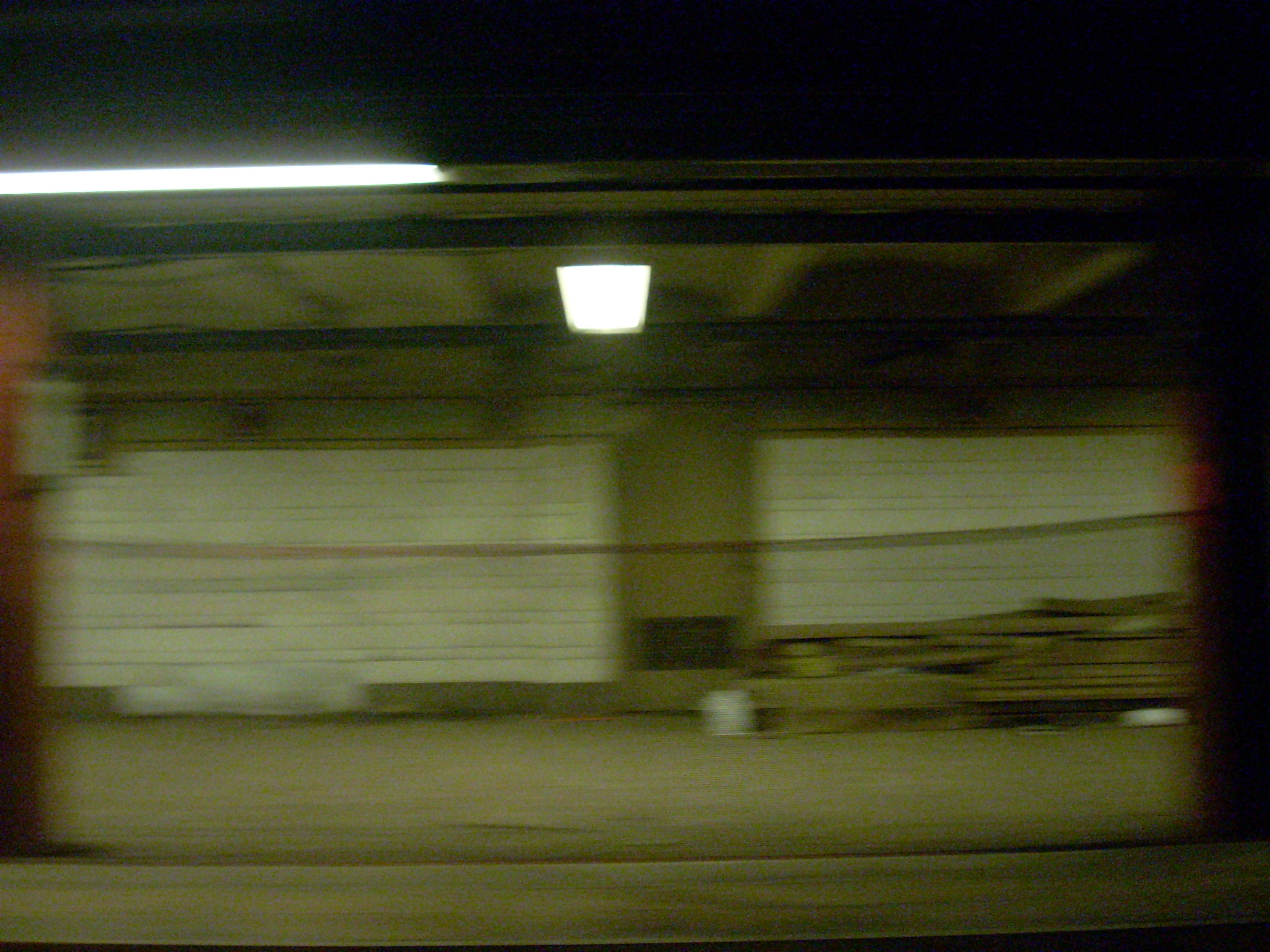 Cortlandt Street BMT Broadway Line Station in Manhattan, NYC